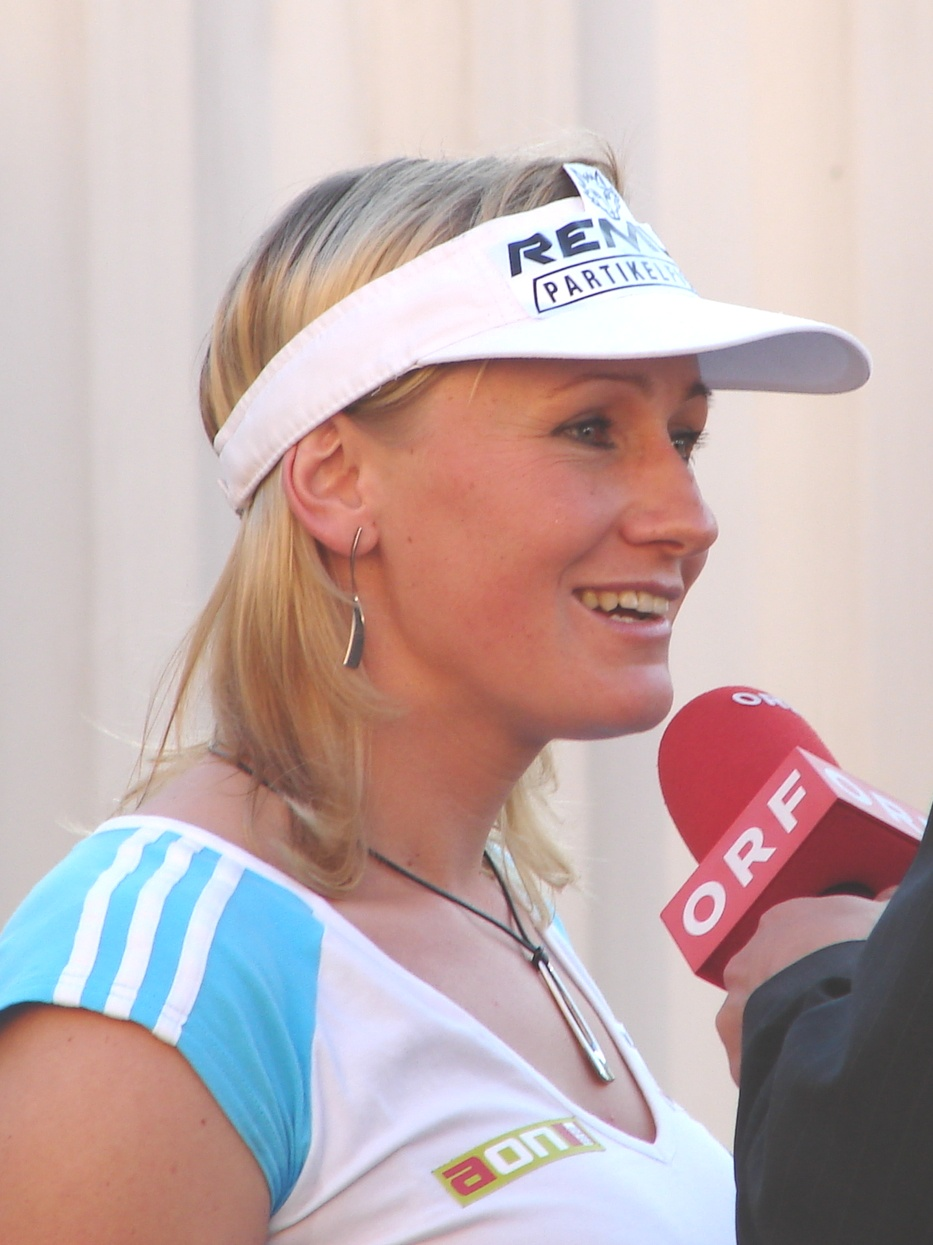 Renate Götschl, "Day of Sports" Festival 2006, Heldenplatz Vienna, cut and edited picture of Image:Goetschl1.jpg